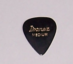 Ibanez medium plectrum for guitar